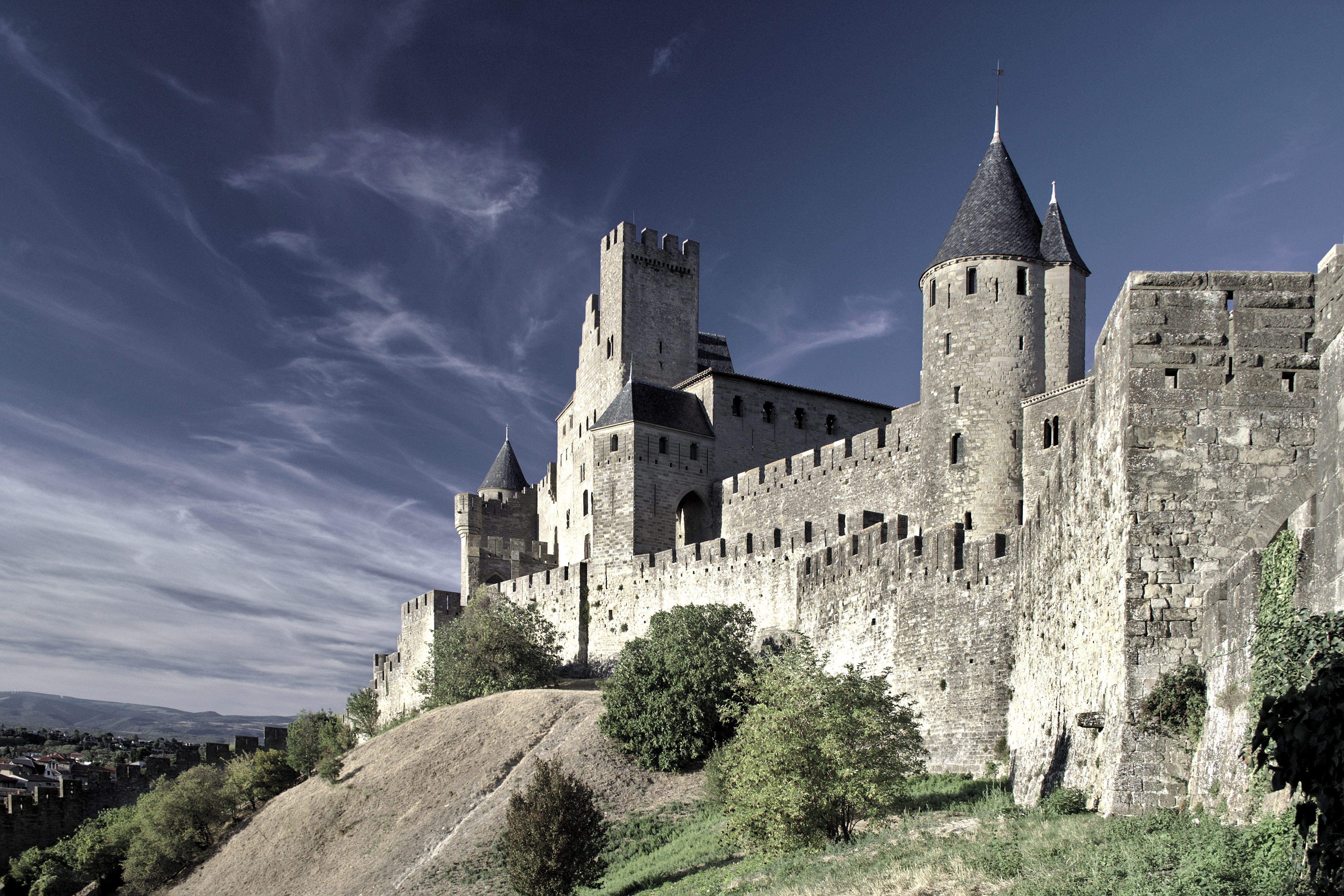 Panoramic view of the Aude mediaval door to the city of Carcassonne (France)